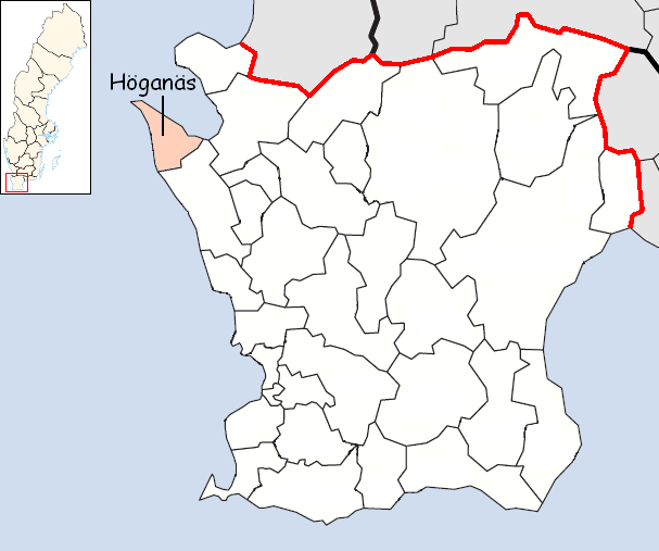 Höganäs Municipality in Scania, Sweden Designed by me. Mere outlines are a PD source from